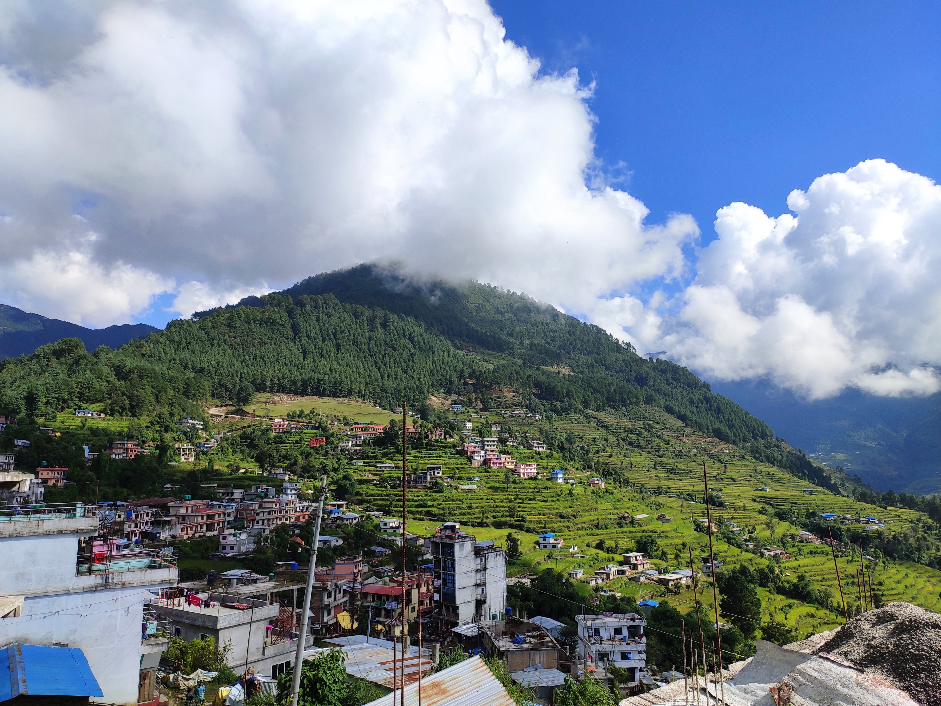 shikharchuli